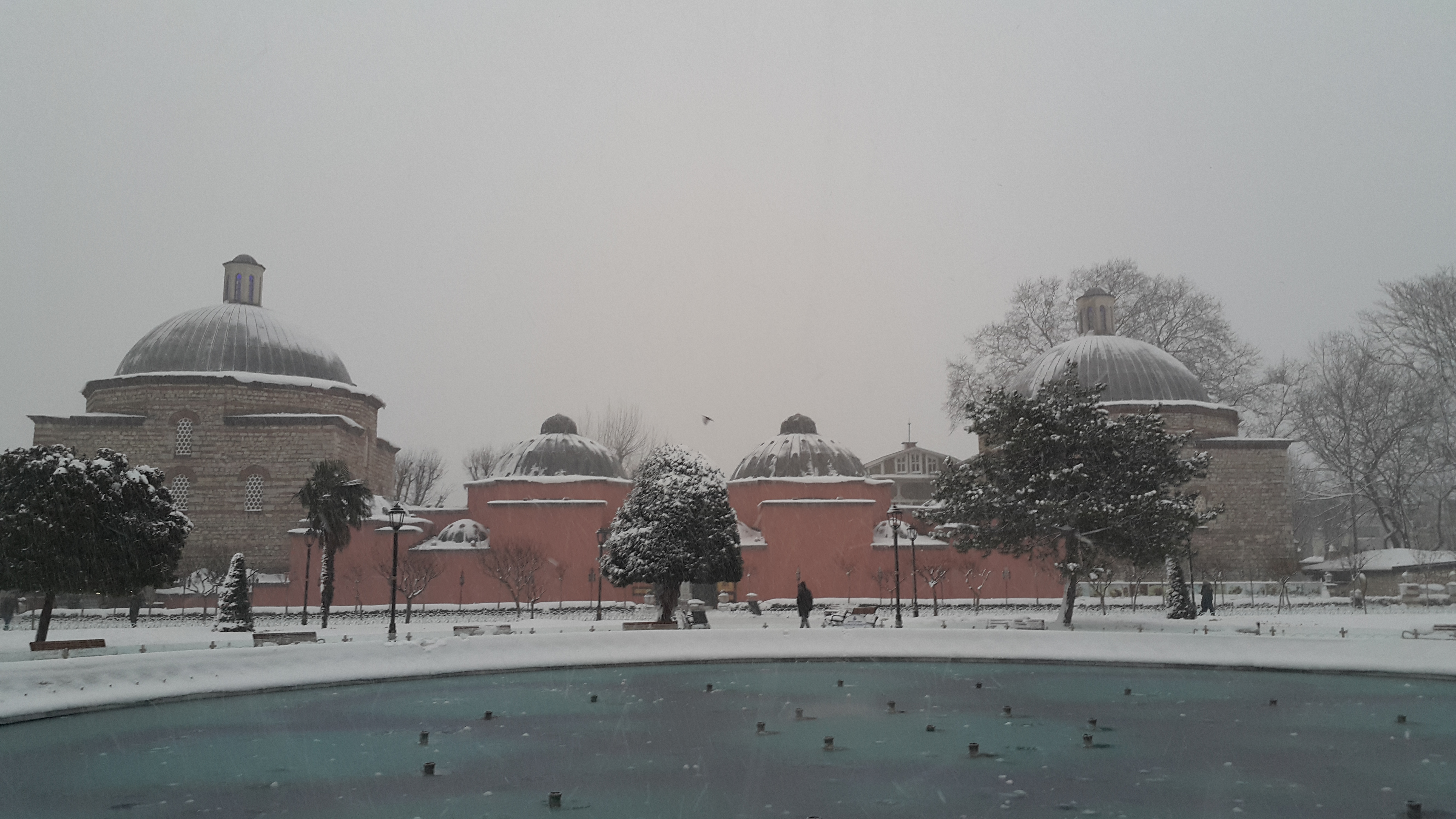 Bath of Roxelana at snowy weather, İstanbul, Turkey.